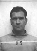 David H. Frisch Los Alamos wartime security badge.